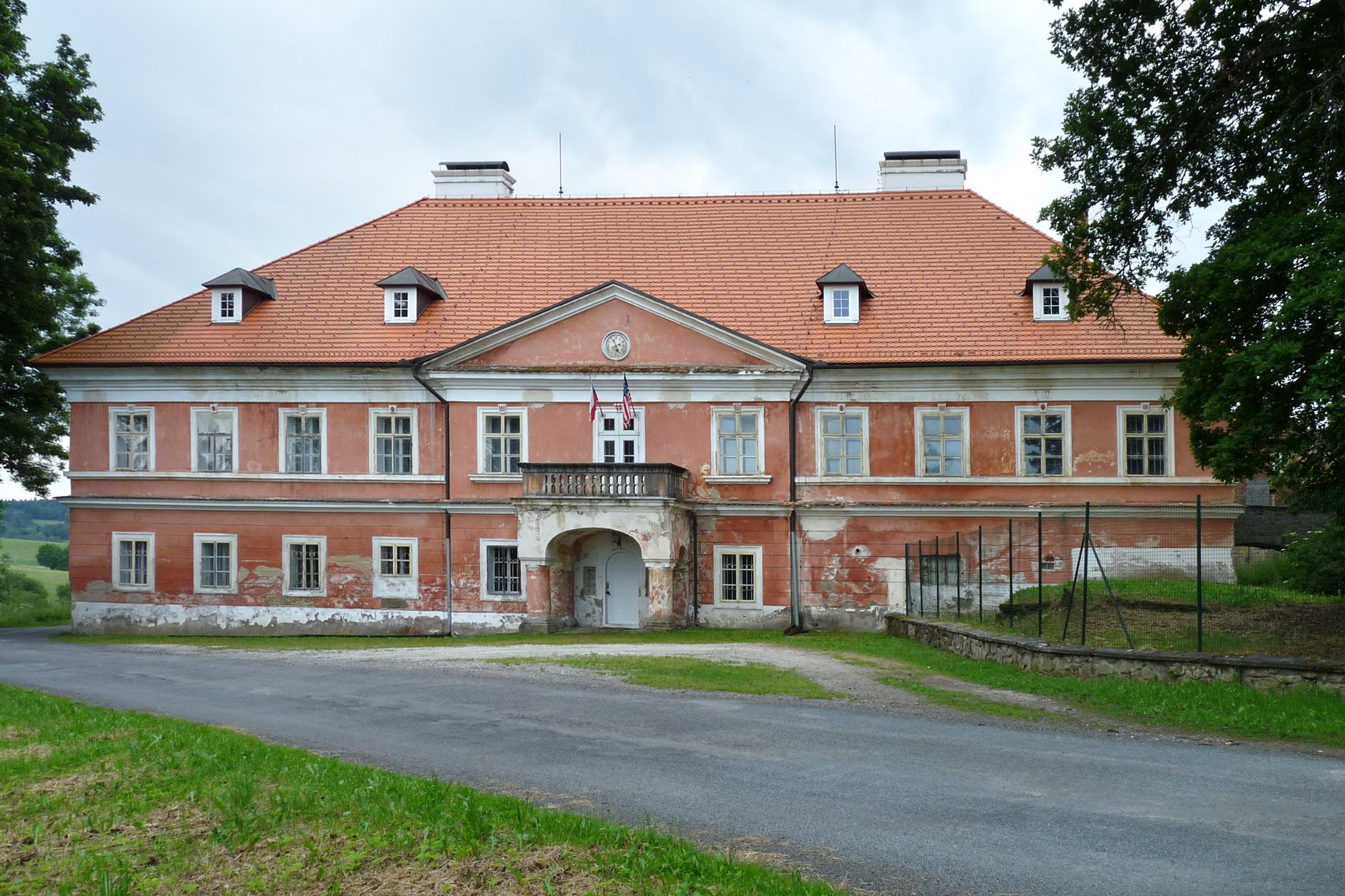 Chateau in the village of Kundratice, part of the town of Hartmanice, Klatovy District, Plzeň Region, Czech Republic